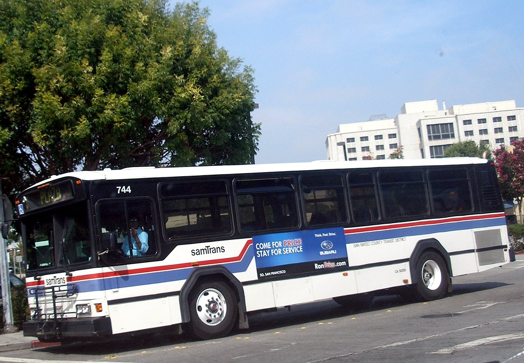 A SamTrans bus in Redwood City. Note the highback seats, uncommon for local buses.